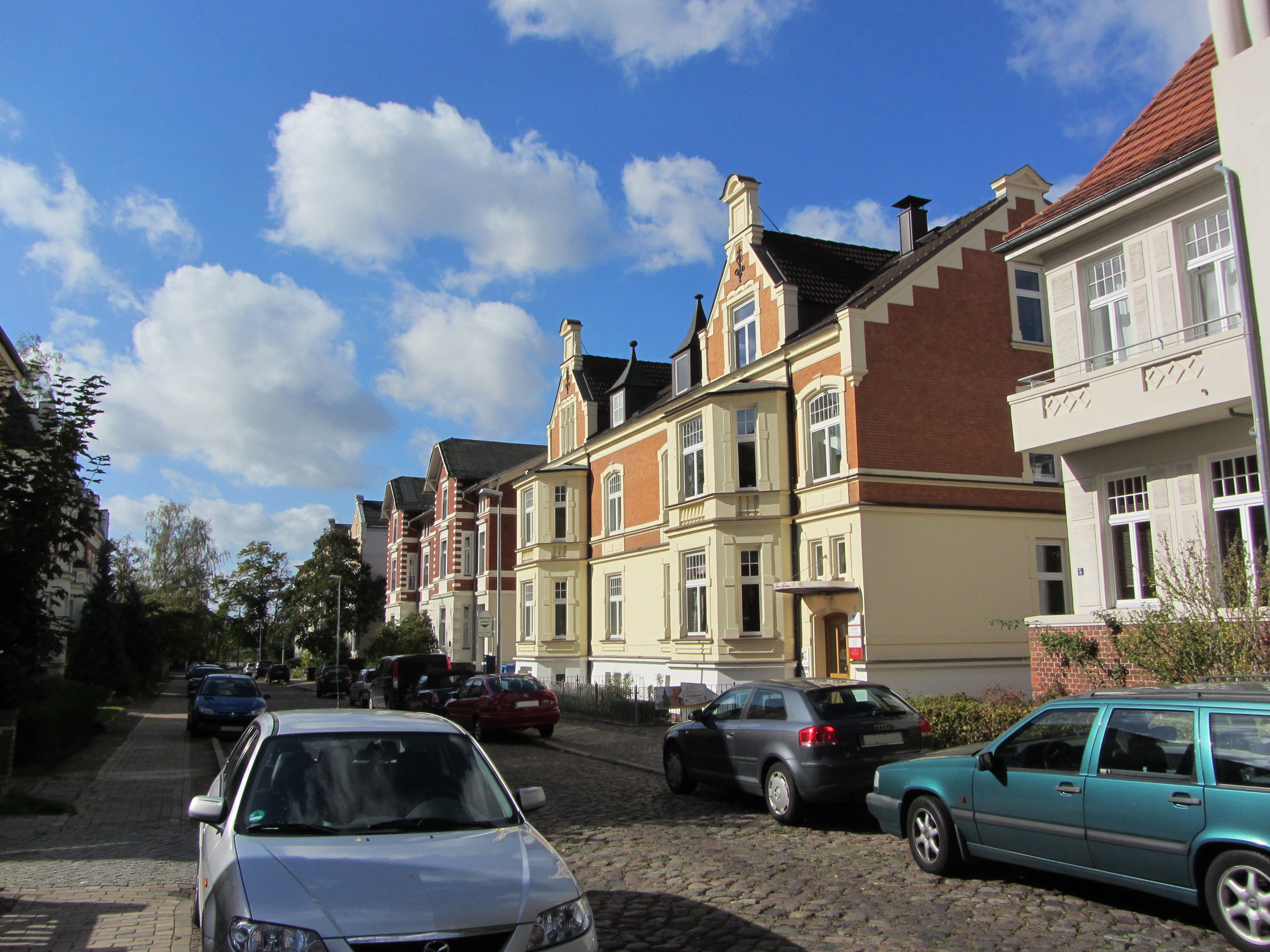 Demmlerstraße in Schwerin, Mecklenburg-Vorpommern, Germany